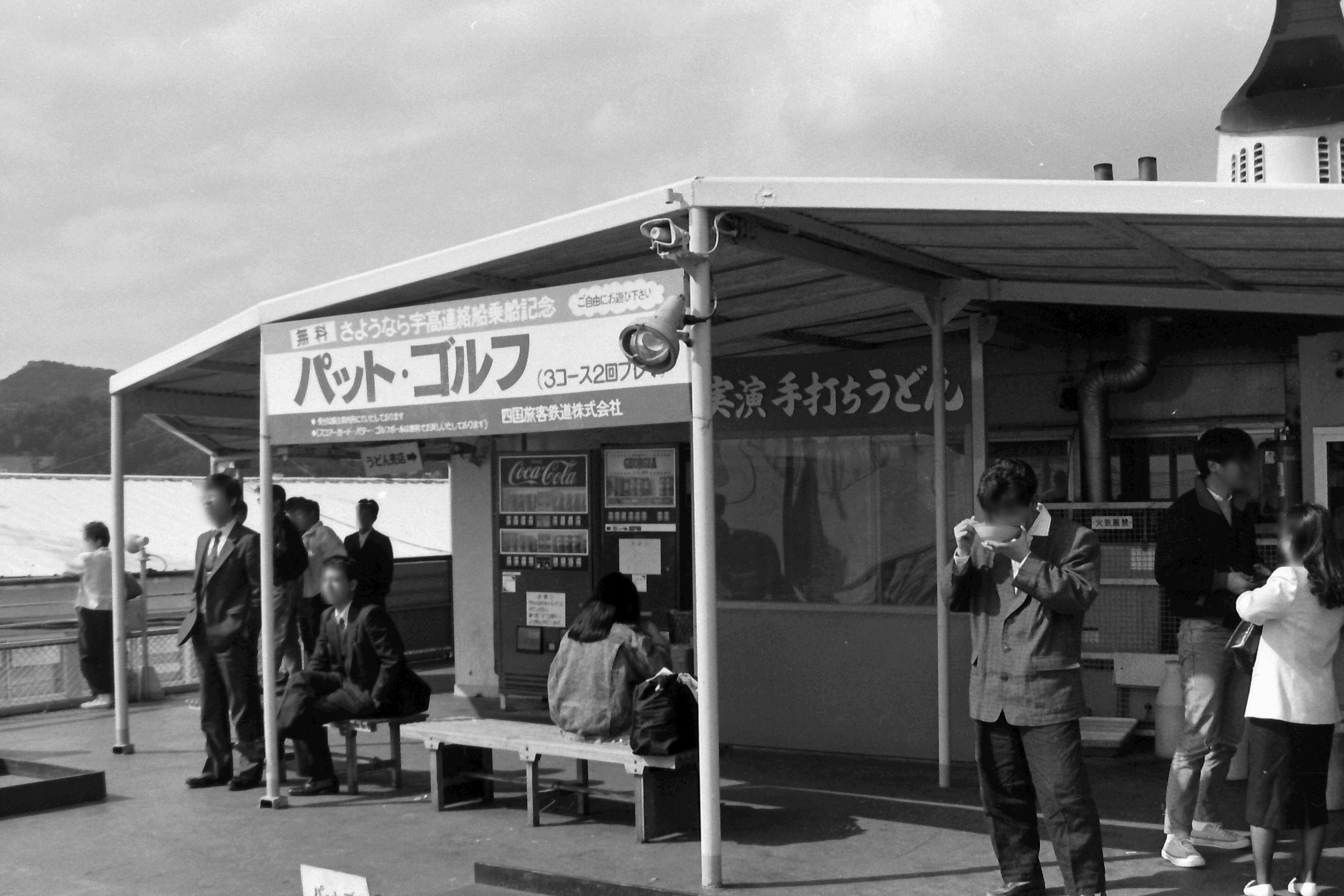 Udon restaurant on JR Shikoku Uko ferry Awa-maru